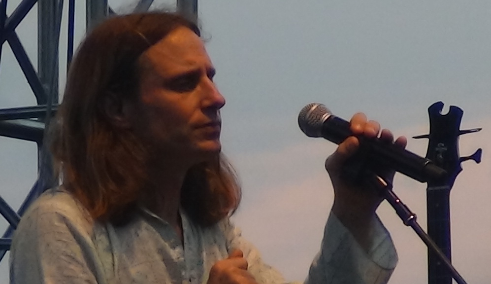 Current Yes singer Jon Davison performing with the band at the Art Park in Lowiston, New York.